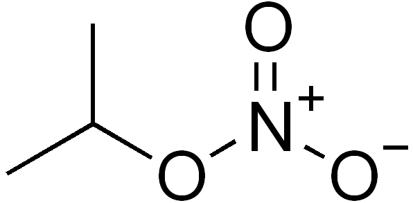 chemical structure of isopropyl nitrate